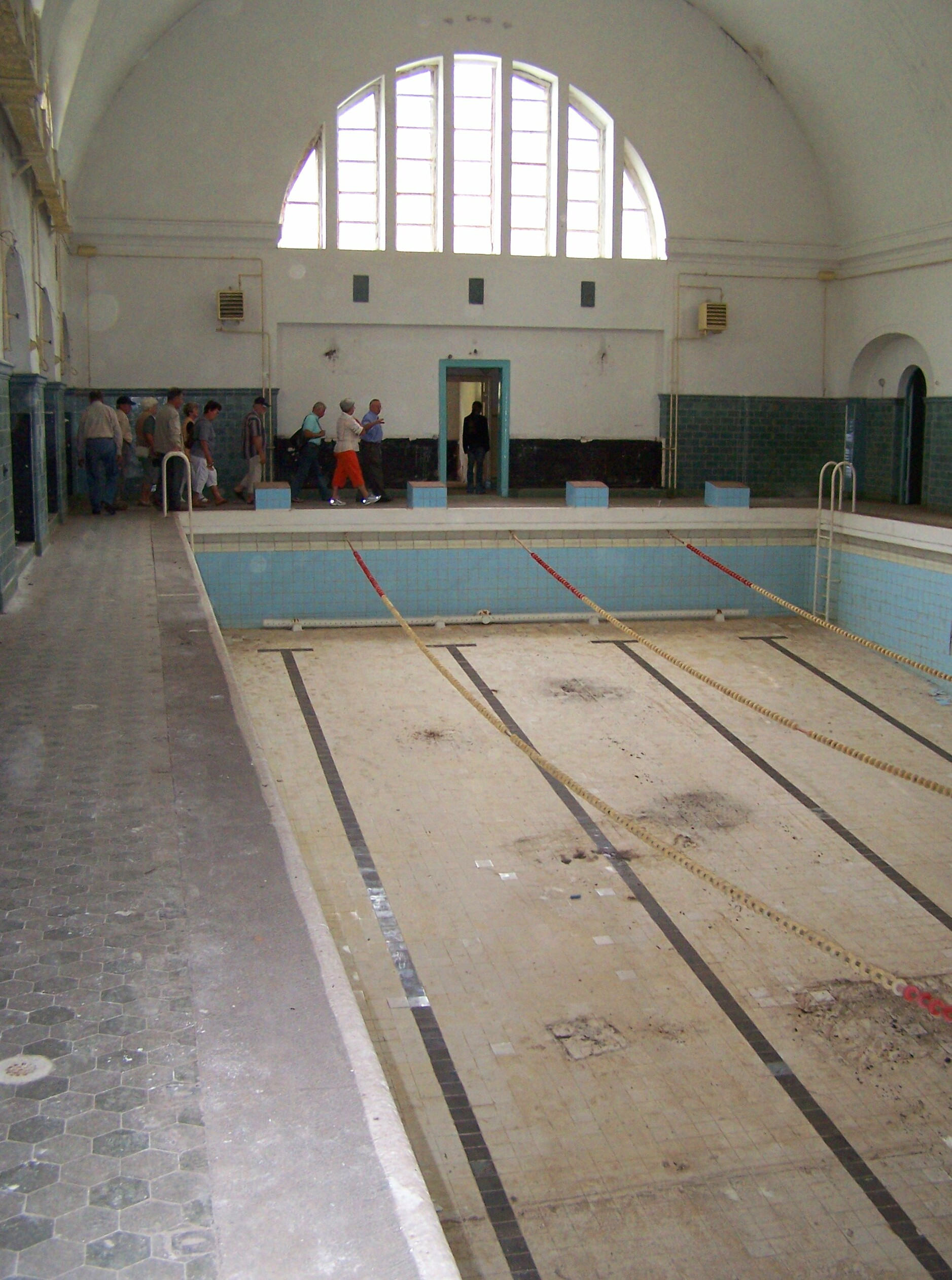 Former swimming baths in the headquarters of the Group of Soviet Forces in Germany in Wuensdorf. The pool is situated in the Hauptallee next to the mainbuilding of the troups. The area is an exclusion zone and is only opened for guided tours.